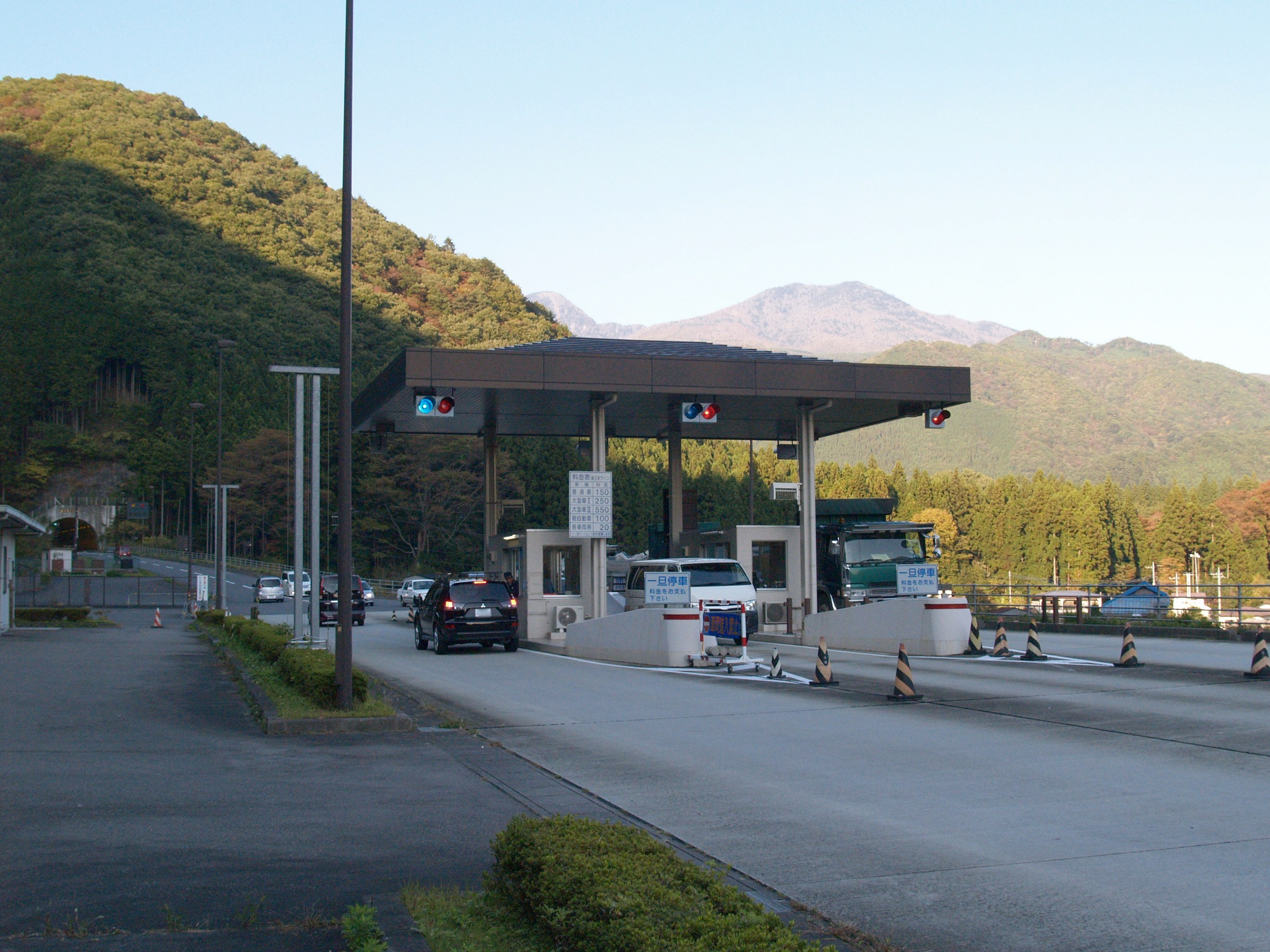 Toll gate on the Nichien Toll Road Ryuokyo Line (part of the Tochigi Prefectural Road Route 19)